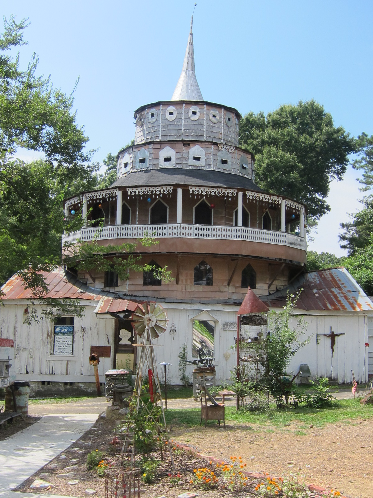 Paradise Gardens